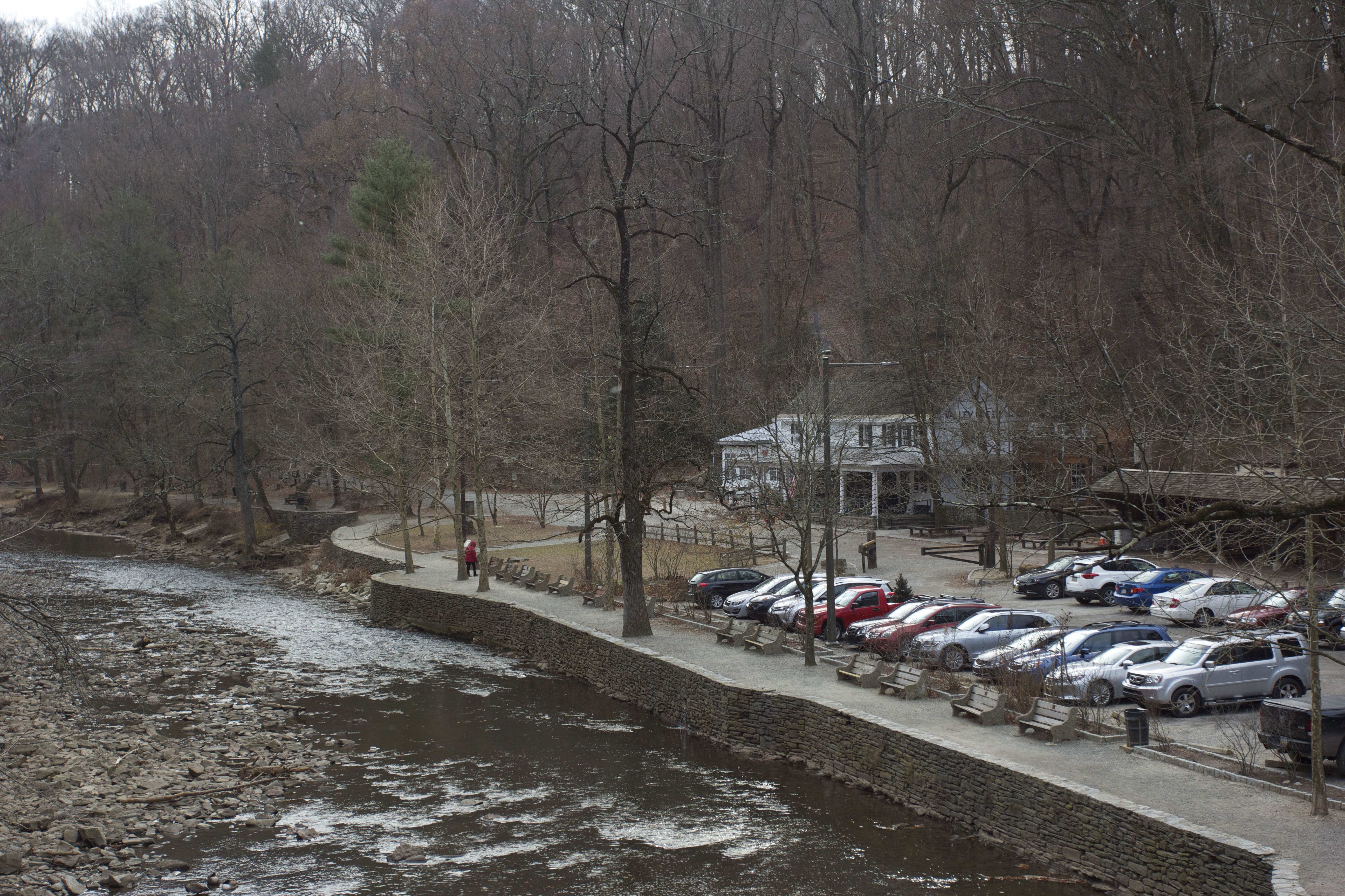 Valley Green Inn